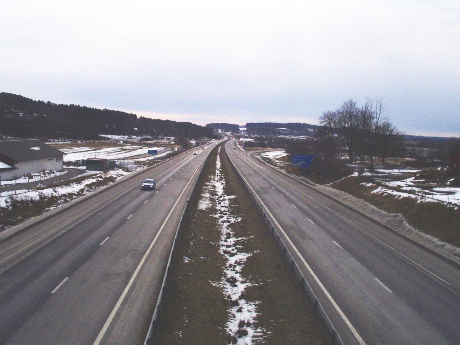 E-Road E6/E20 in Varberg, Sweden. The picture is taken in southbound direction near Exit 55, a few kilometers north of Varberg city centre.